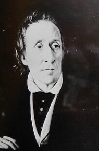 John Pascoe Fawkner (1792–1869)